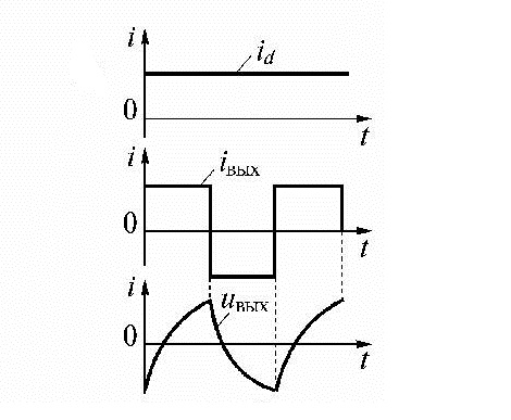 DerevenetsB